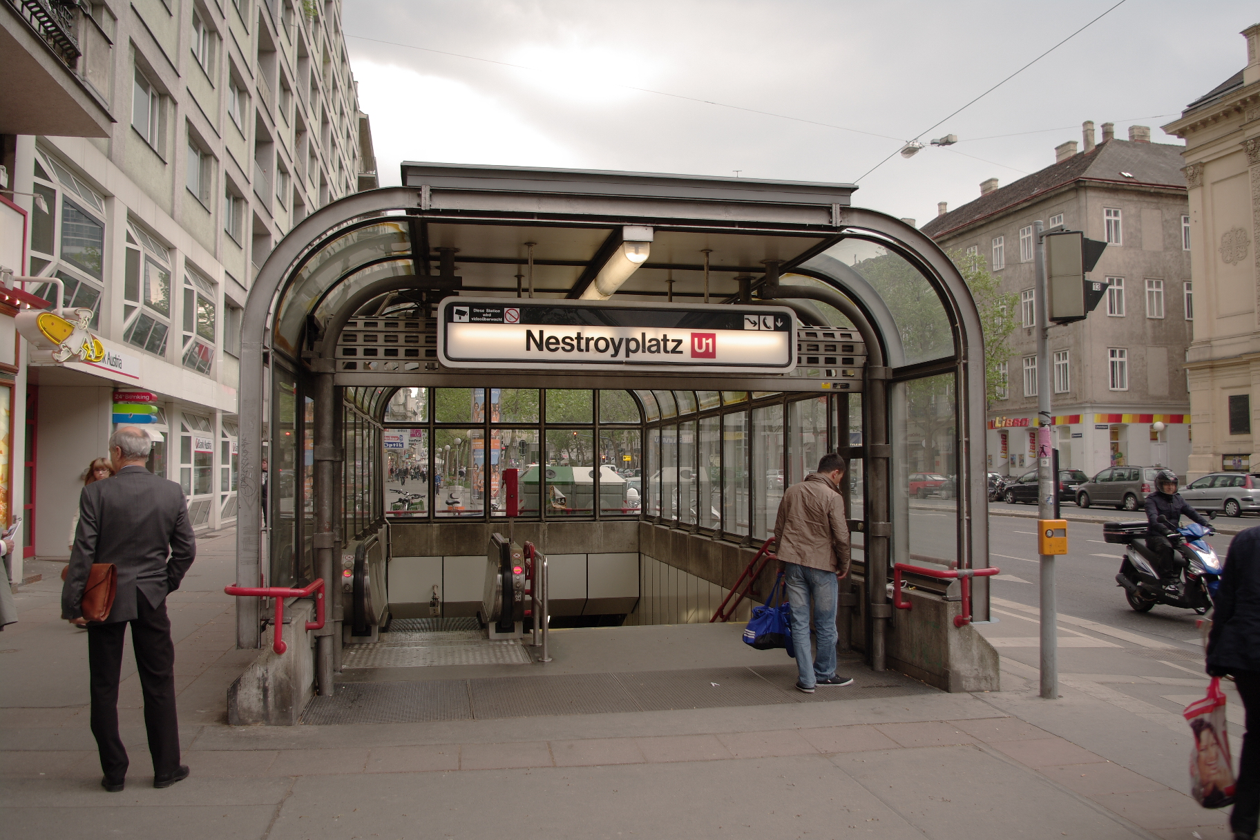 U1-Station_Nestroyplatz5 Vienna